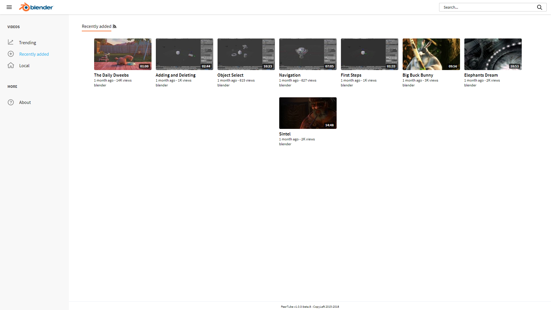 Screenshot of a website running PeerTube powered by the Blender Foundation. As of original upload date, this is a test channel and so only contains freely licensed videos by the Foundation themselves.